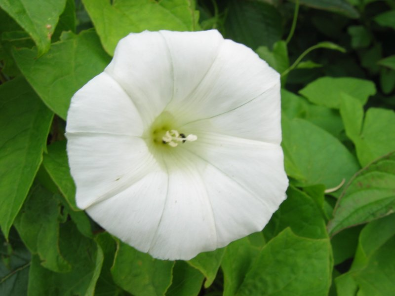 Calystegia sepium (Larger Bindweed/Hedge Bindweed/Rutland beauty), subspecies sepium.